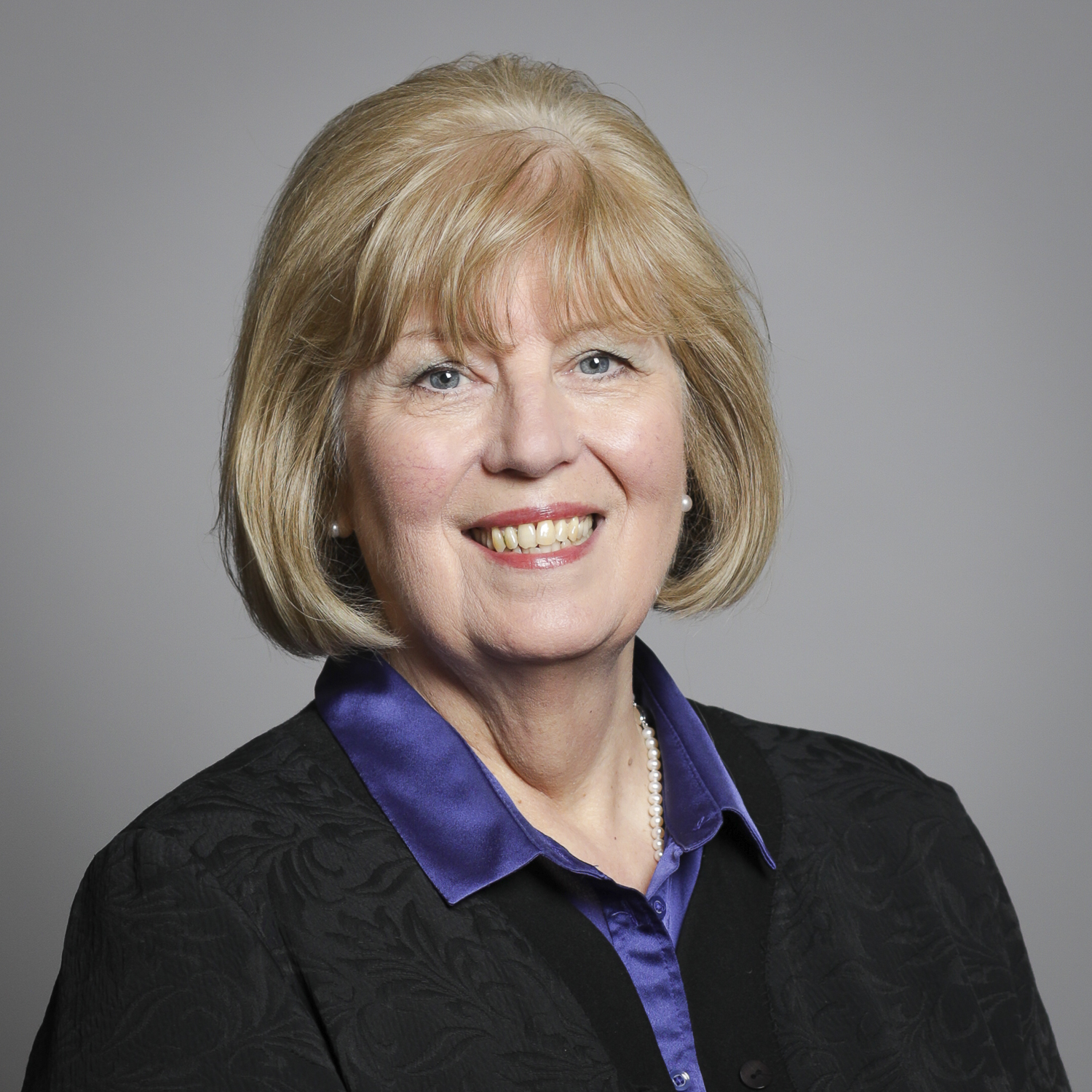 Official portrait of Baroness Crawley 1×1 portrait of Baroness Crawley